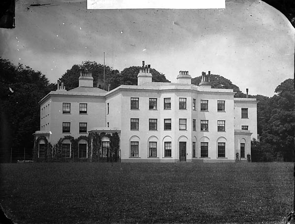 1 negative : glass, wet collodion, b&w ; 16.5 x 21.5 cm.